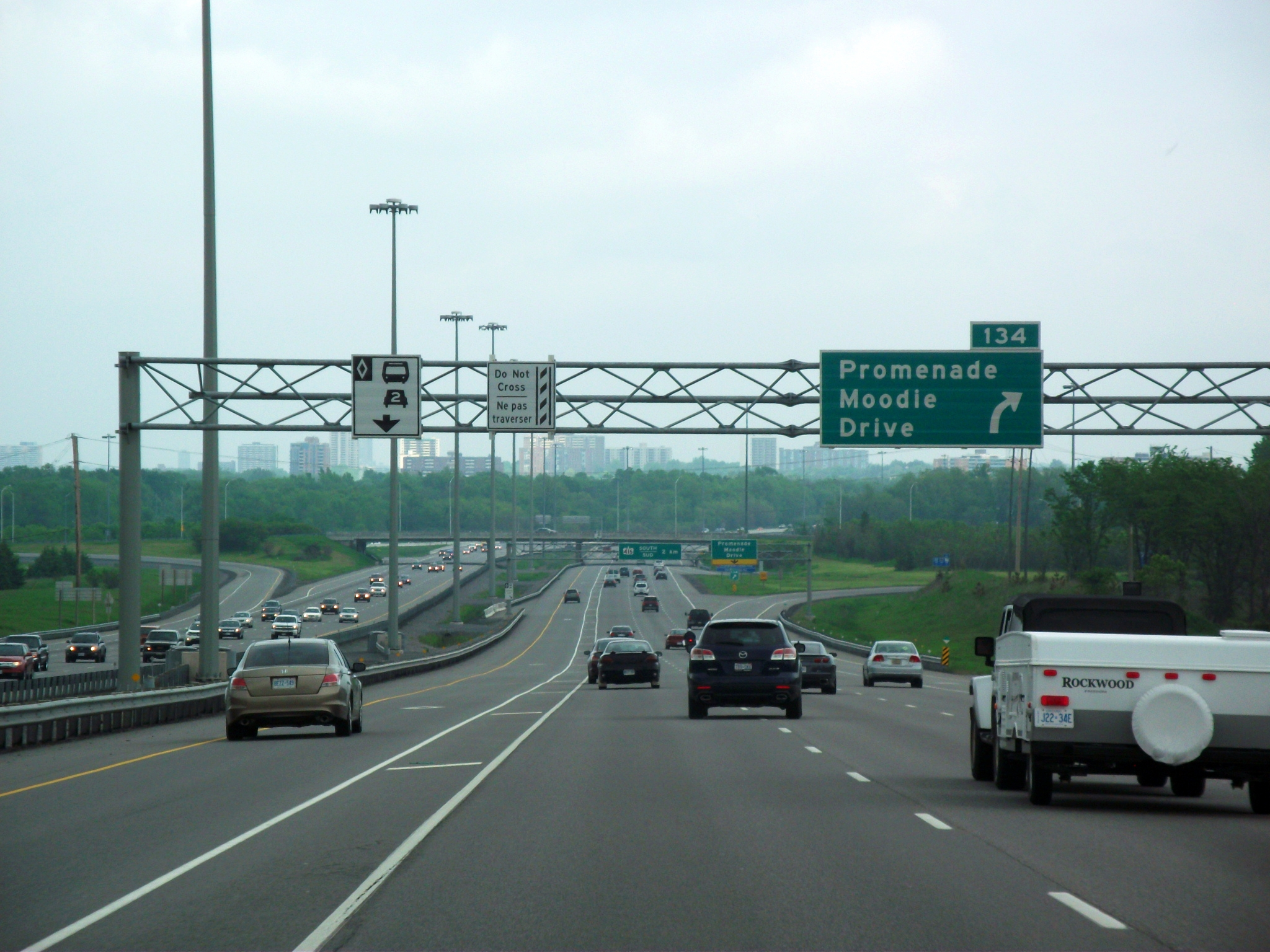 Highway 417 in Ottawa near the Highway 416 interchange.